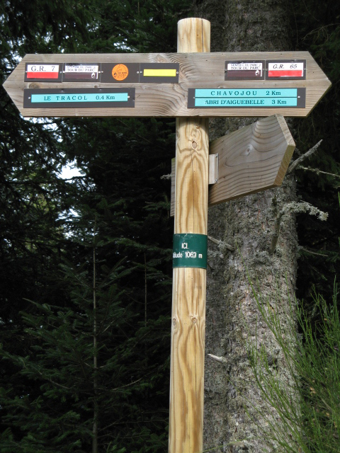 Signboard in the parc du Pilat displaying several trailside markings.